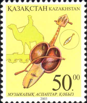 An image of a Kobyz on a Kazakhstan stamp, 50, 2003